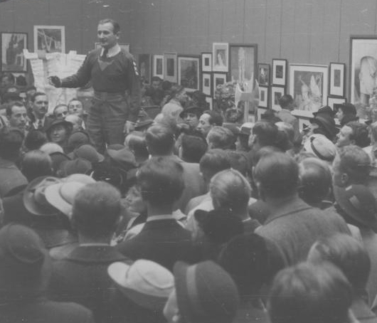 Stanisław Szukalski in Kraków 1936.